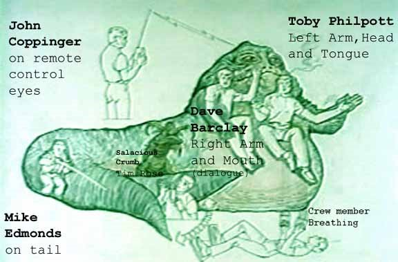 Sketch of the Jabba the Hutt puppet from Return of the Jedi, including puppeteers Dave Barclay, Toby Philpott, John Coppinger, Mike Edmonds and Tim Rose.